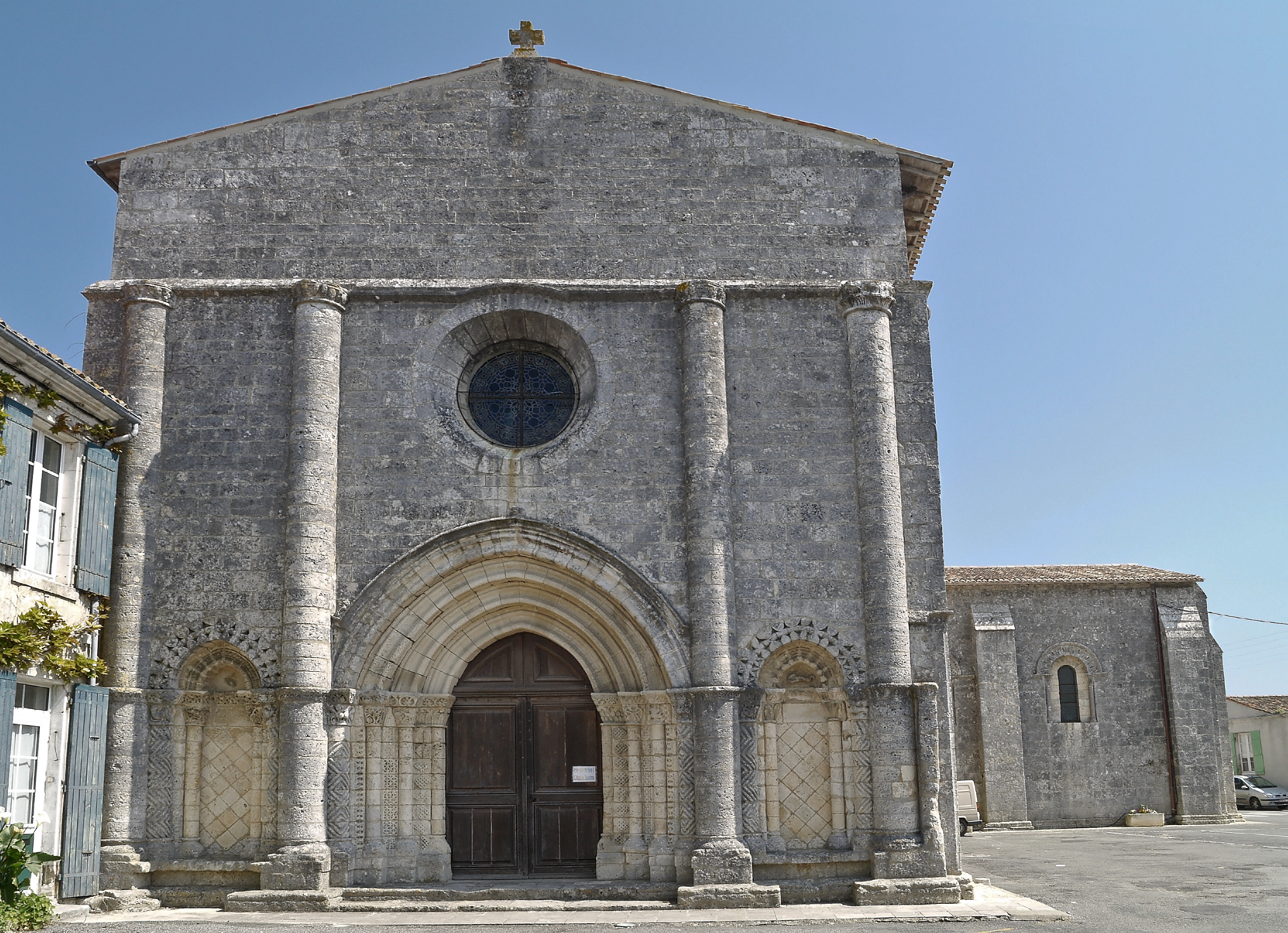 Saint-Georges d'Oleron (Charente-Maritime, France)- Roman style church